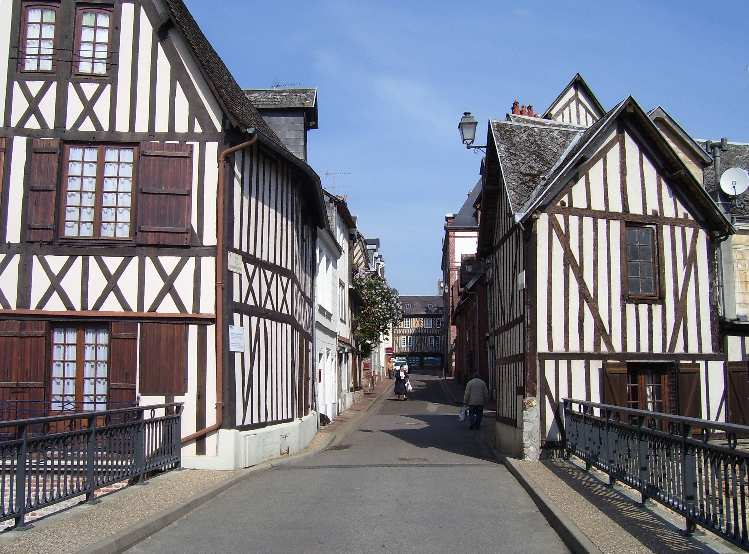 Timber-framed houses at a bridge over the charentonne. Here stood a city gate (porte de Boucheville/porte de Paris) as part of the fortifications of Bernay (Eure,France). It was built in the 13th century and destroyed in 1830. The road leads to the "sous-préfecture".